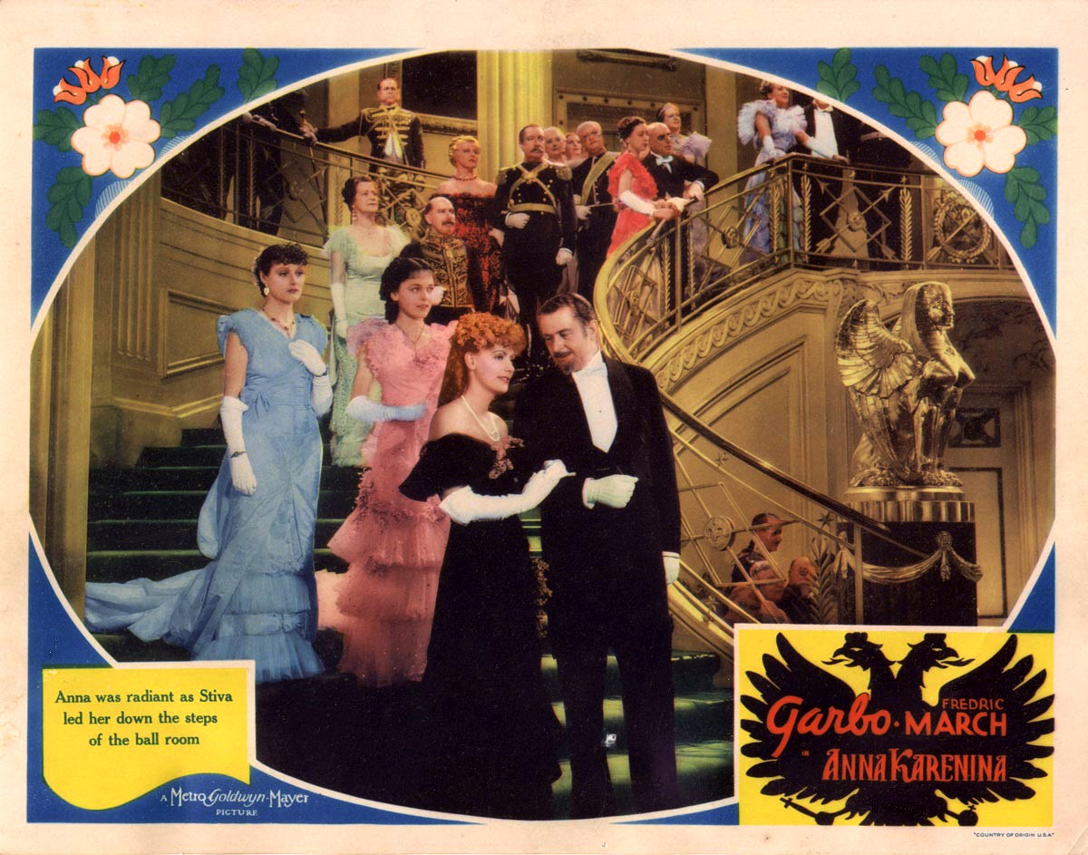 Lobby card for the 1935 film Anna Karenina with Greta Garbo and Frederic March.